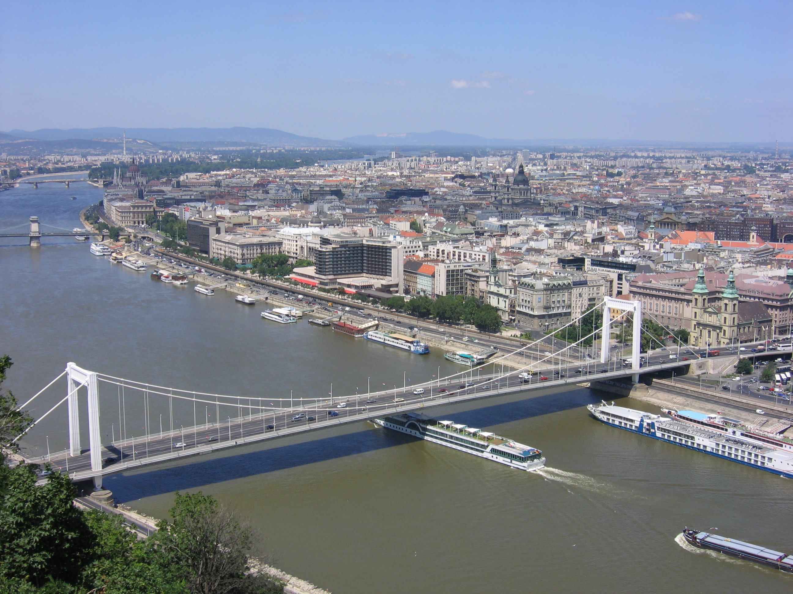 View on Budapest